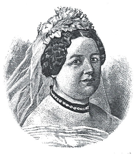 Portrait of German writer Helene von Hülsen.